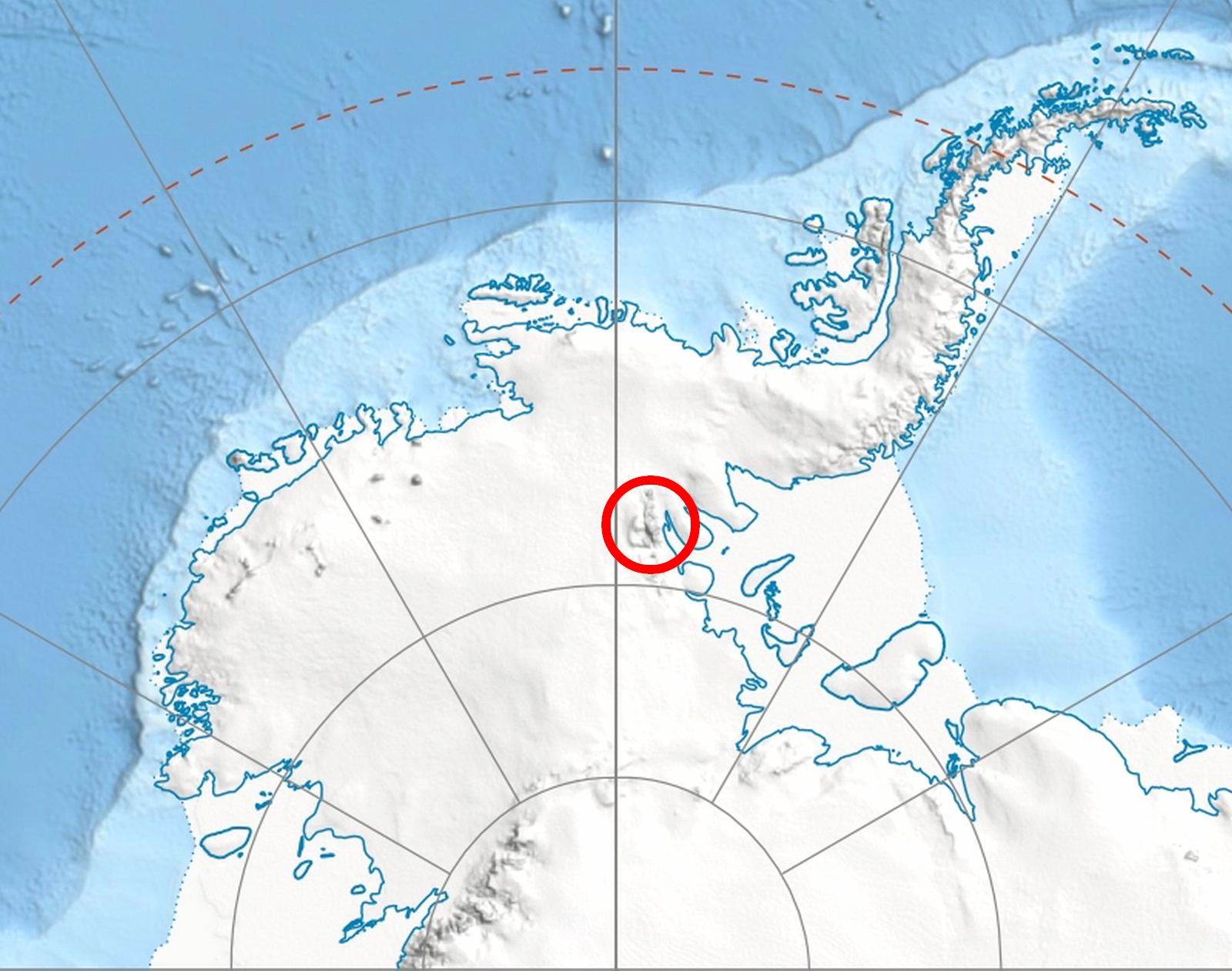 Location of Sentinel Range in Western Antarctica.